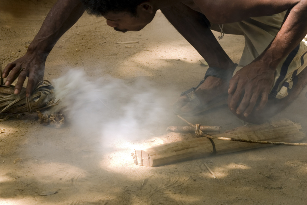 Starting fire the tradional way. Batek tribe of Orang Asli in Malaysia. Taman Negara national park, Malay peninsula.